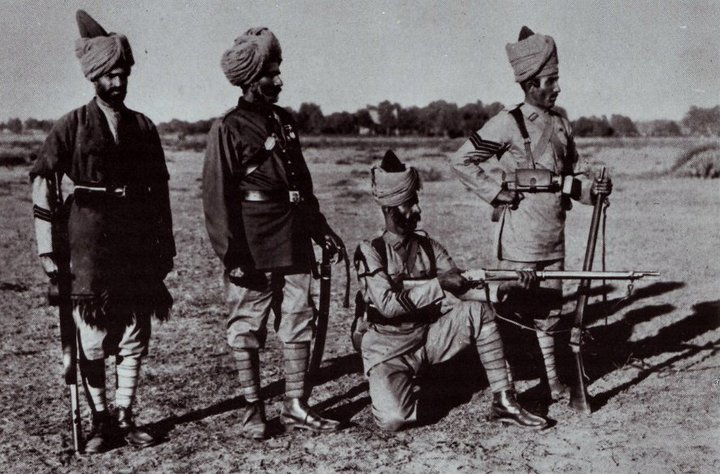 Pre-1900 Indian army soldiers: a Sepoy in poshteen, an Indian Officer in full dress, a Lance-Naik and a Havildar of the Guides